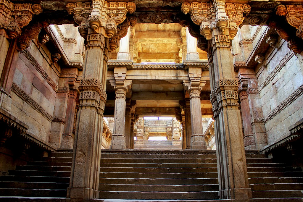 Ancient Step Well